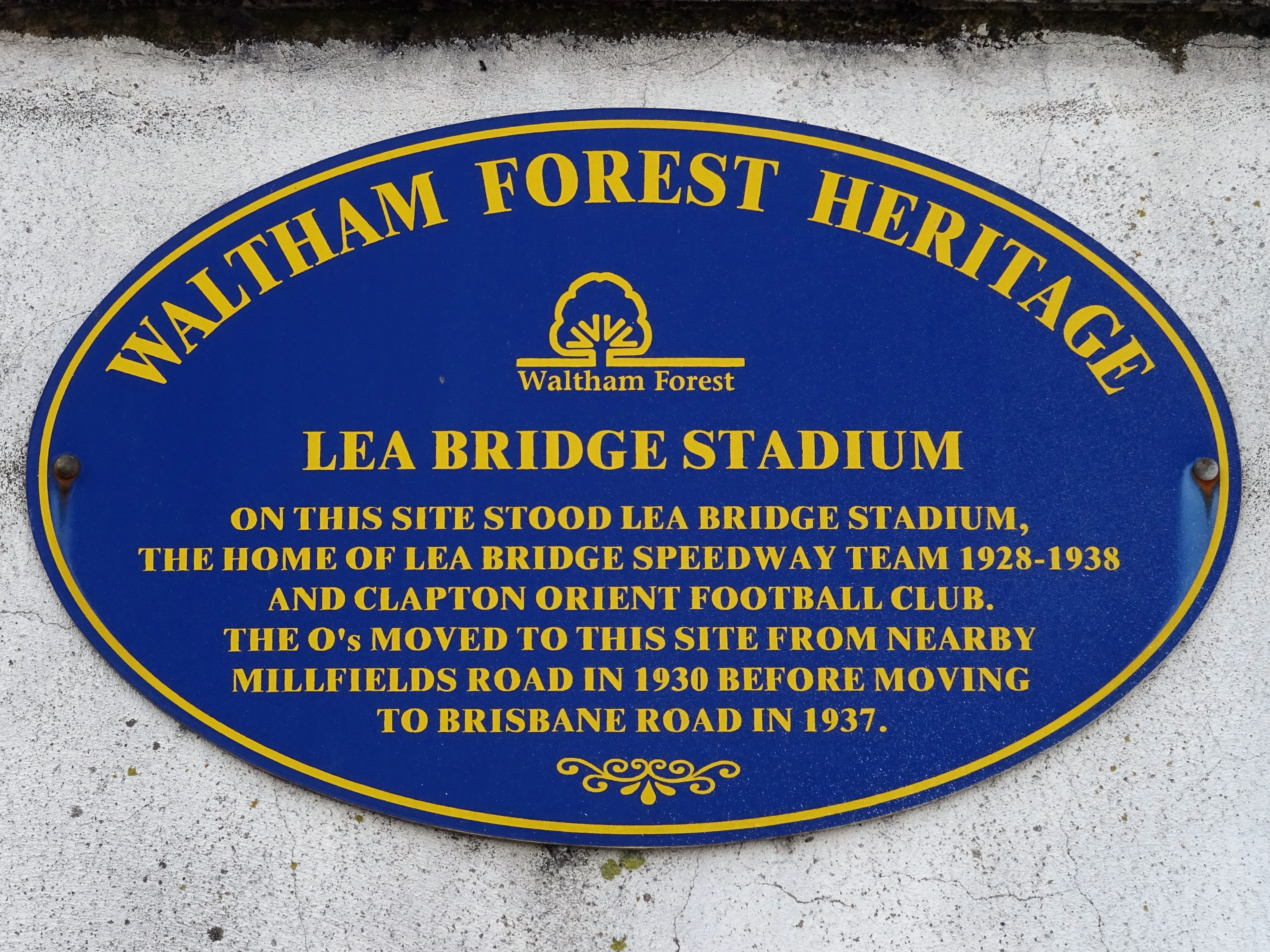 Blue plaque erected by Waltham Forest Council as part of the Waltham Forest Heritage scheme at 24 Rigg Approach, Walthamstow, London E10 7QN